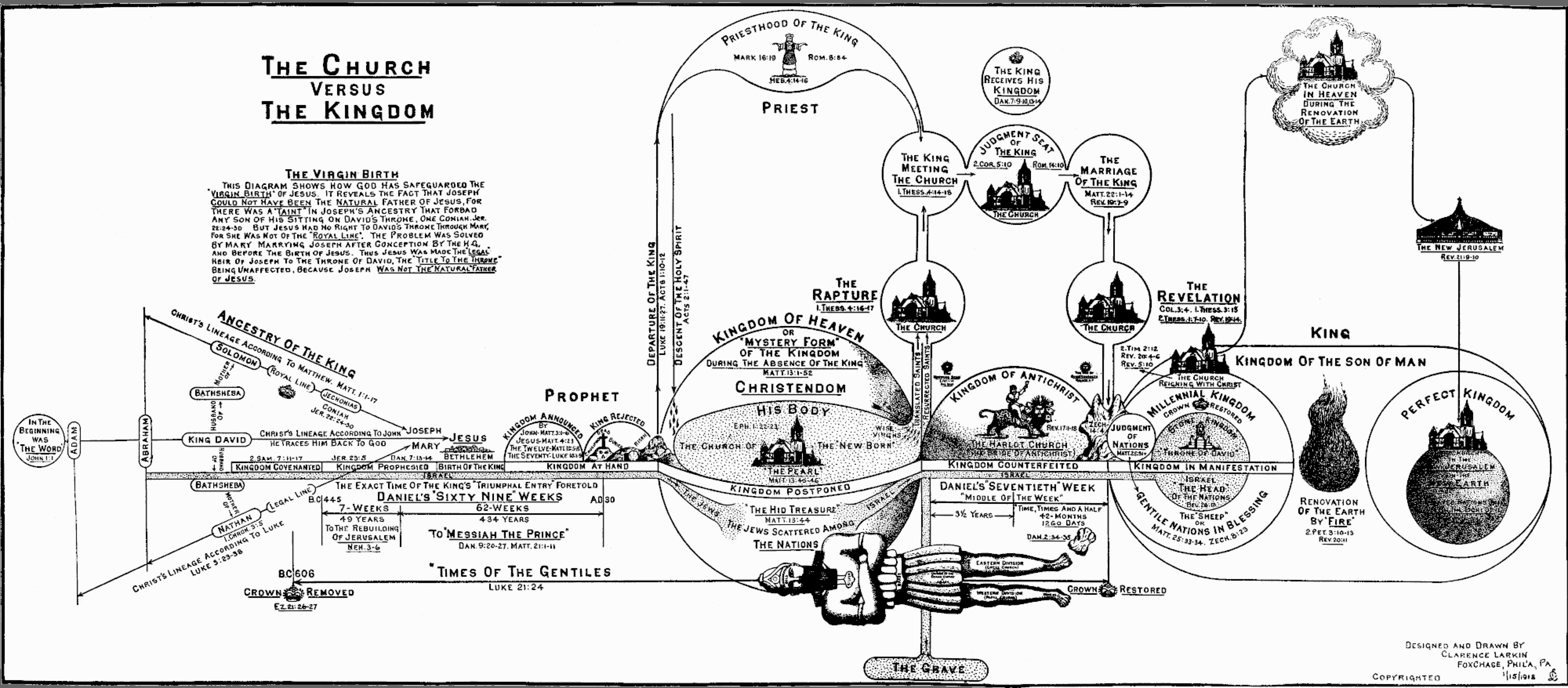 Elaborate timetable explaining premillennial dispensationalist beliefs about the End Times. Alternative version of File:Larkin-dispensationalism-timetable-1918.png. Trying to fix a thumbnails issue.